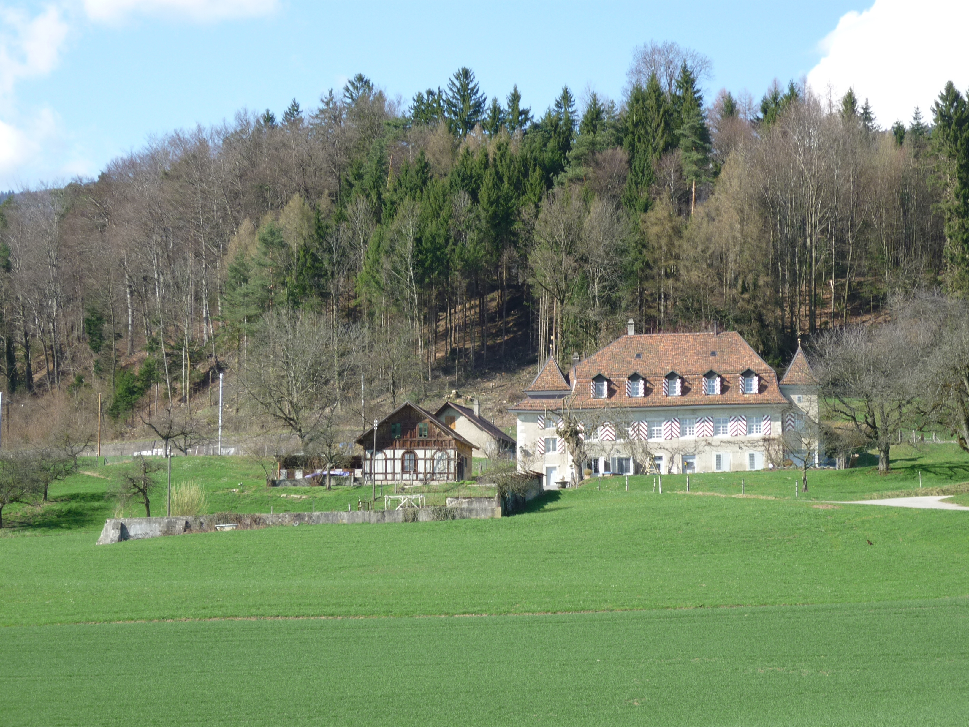 Staalenhof in Langendorf, Canton of Solothurn, Switzerland, near the border to the community of Bellach; former manor of the extinct patrician family vom Staal of Solothurn, built in the 16th century.